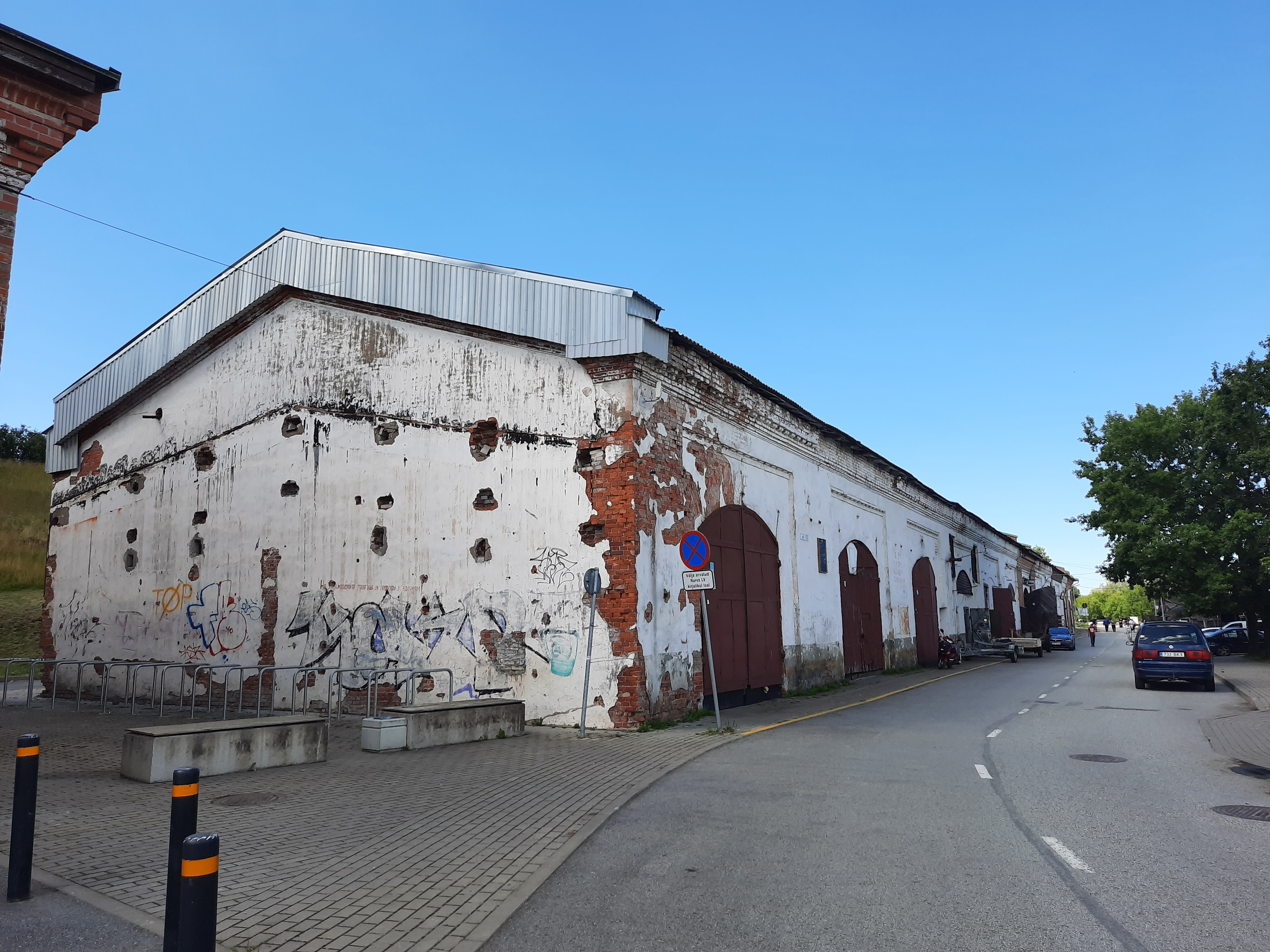 Kreenholm Manufacturing Company